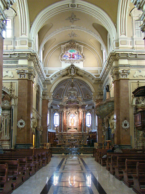 Basilica of San Martino, Martina Franca, Apulia, Italy.